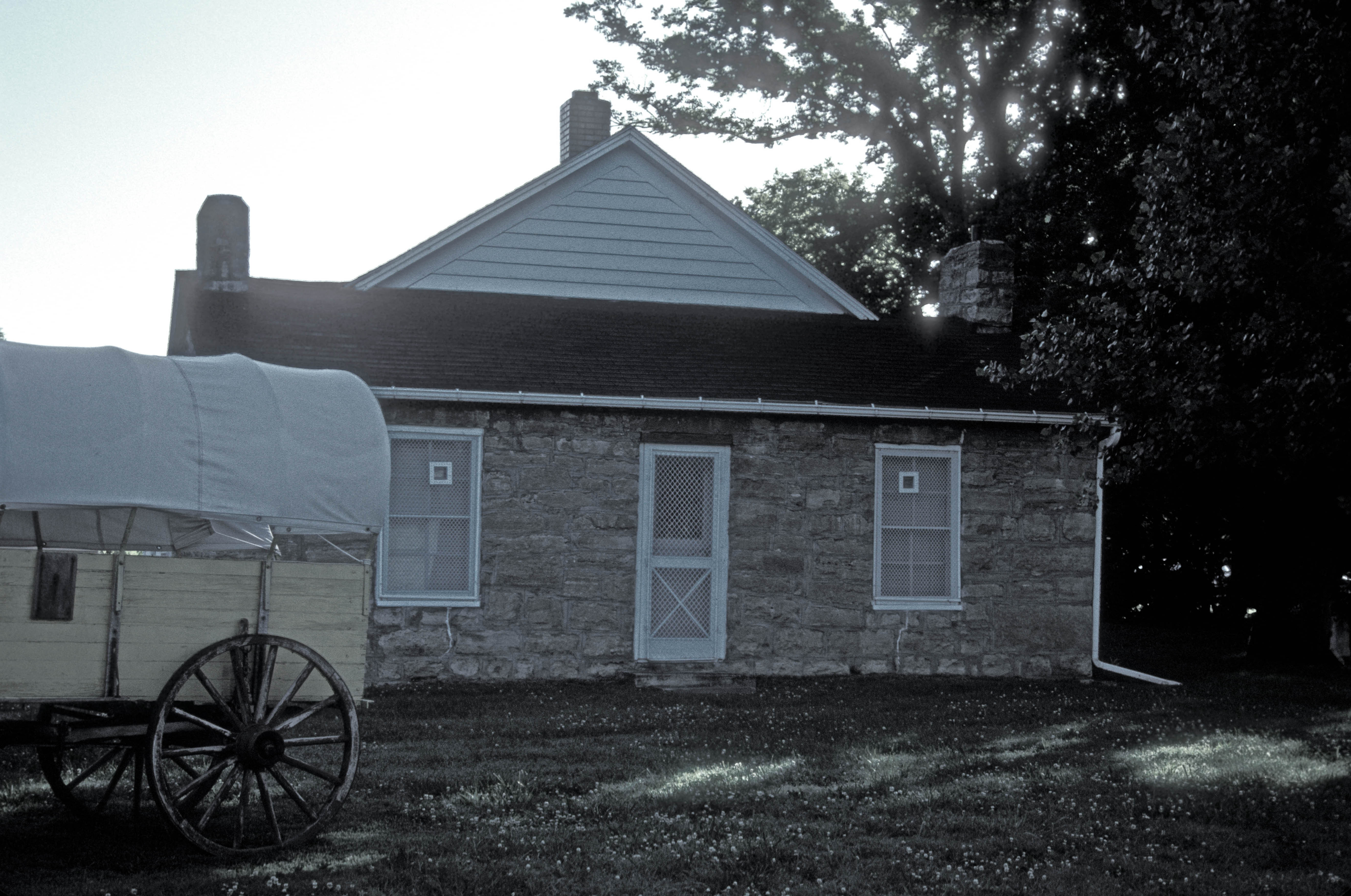 ON ST. MARY'S COLLEGE CAMPUS; 1857 BUILDING USED AS GOVERNMENT PAY STATION TO THE INDIANS AS ANNUNITY FOR LAND EXCHANGED FOR RESERVATION